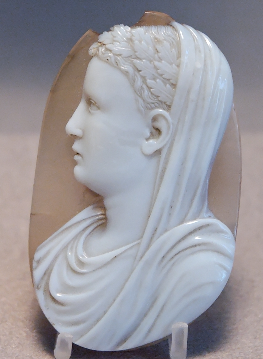 Veiled prince crowned with foliage. Sardonyx cameo, France (?), 14th century. From a cameo cross Jean of Berry commissioned from Hermann Ruissel for the Sainte Chapelle in Bourges ca 1416.